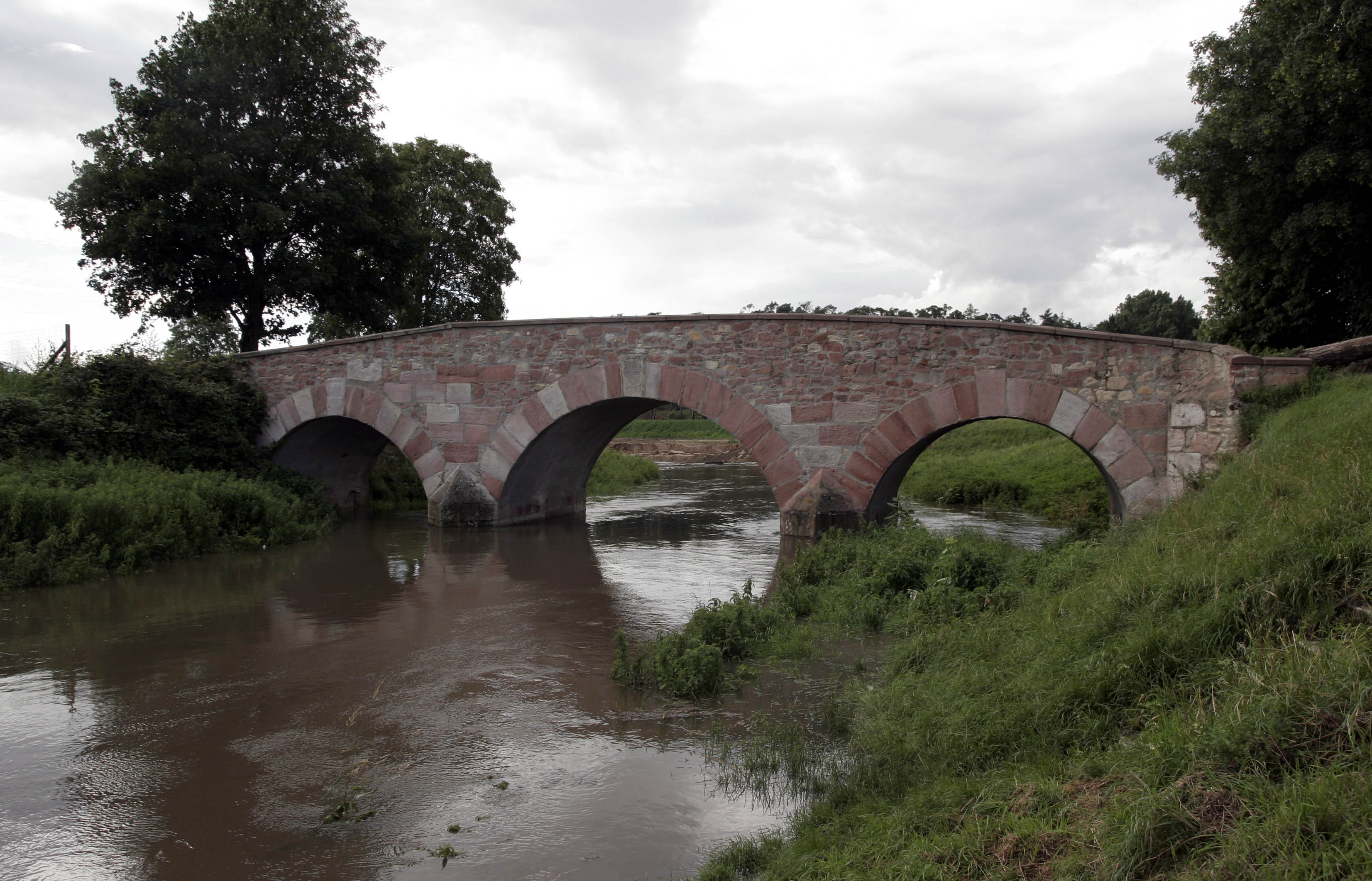 Wattenheimer Brücke (Wattenheim Bridge) in Lorsch (Hesse, Germany)